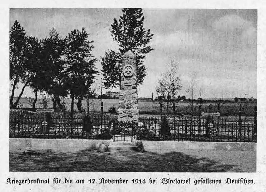 War graveyard built in 1914 year on Wieniecka street in Włocławek, destroyed during times of Polish People's Republic.